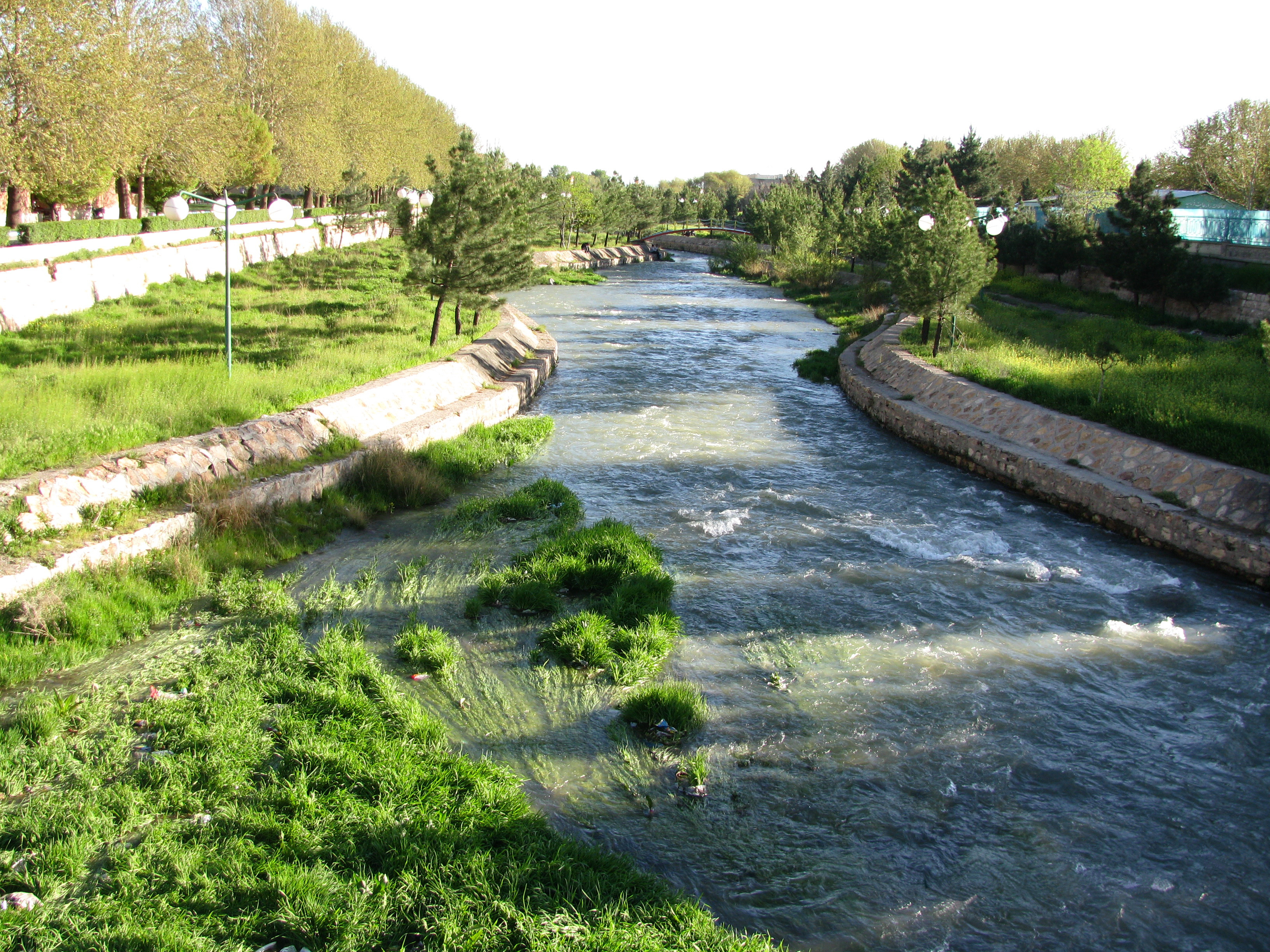 Sufi Chay flowing in Maragheh